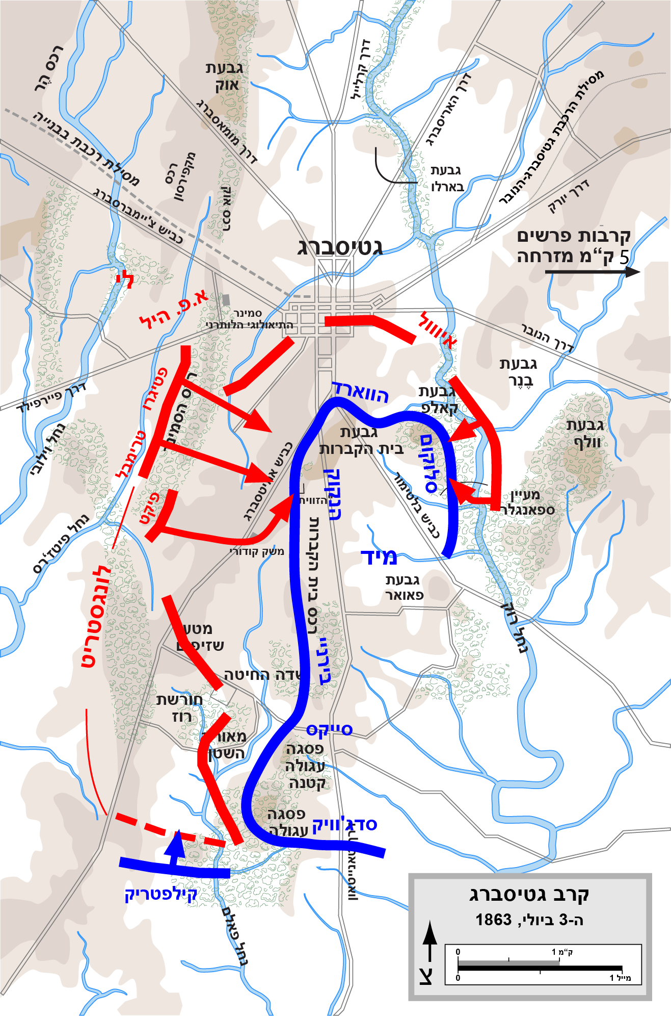 Map of the Battle of Gettysburg of the American Civil War. Drawn in Adobe Illustrator CS5 by Hal Jespersen. Graphic source file is available at